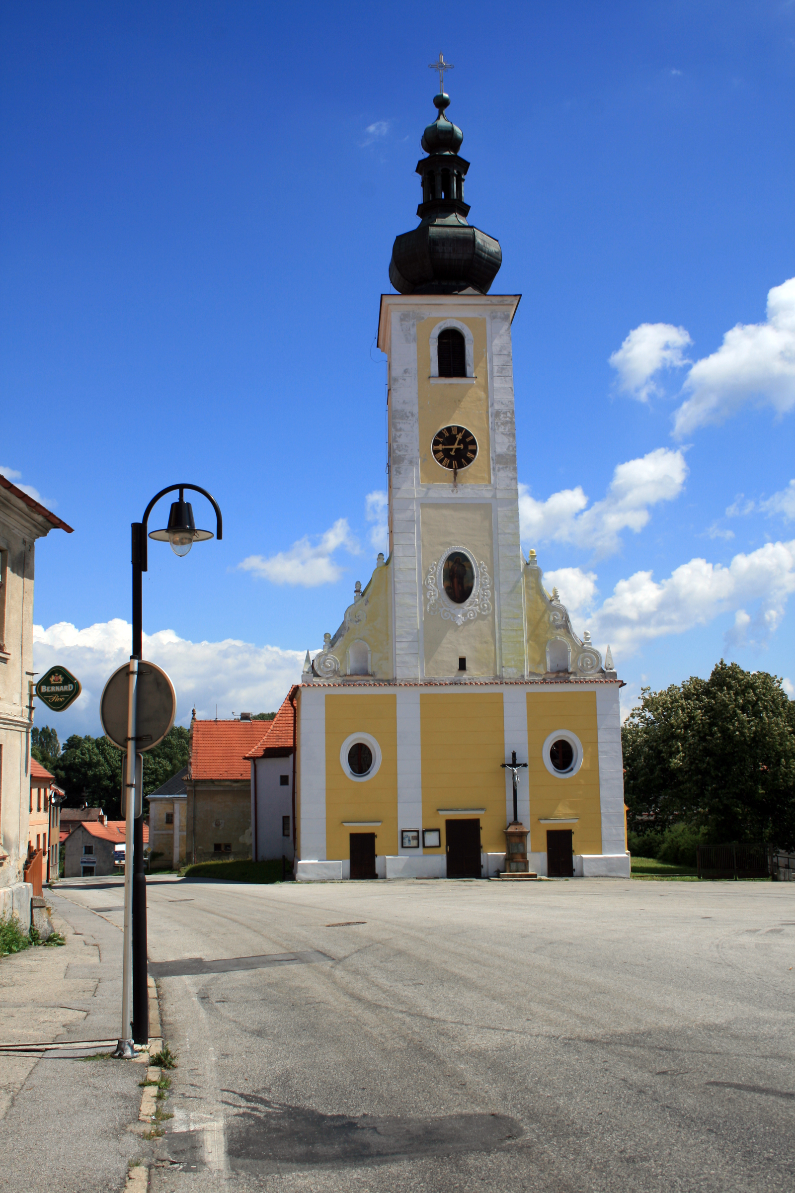 Church of St. Jakub in Benešov nad Černou, south Bohemia, Czech Republic